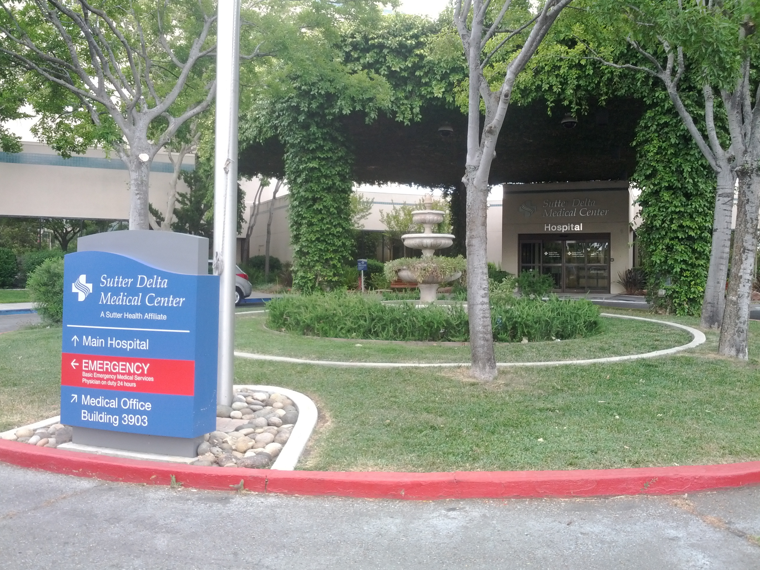 Sutter Delta Medical Center entrance, flag pole and turnaround in Antioch, CA May 2013